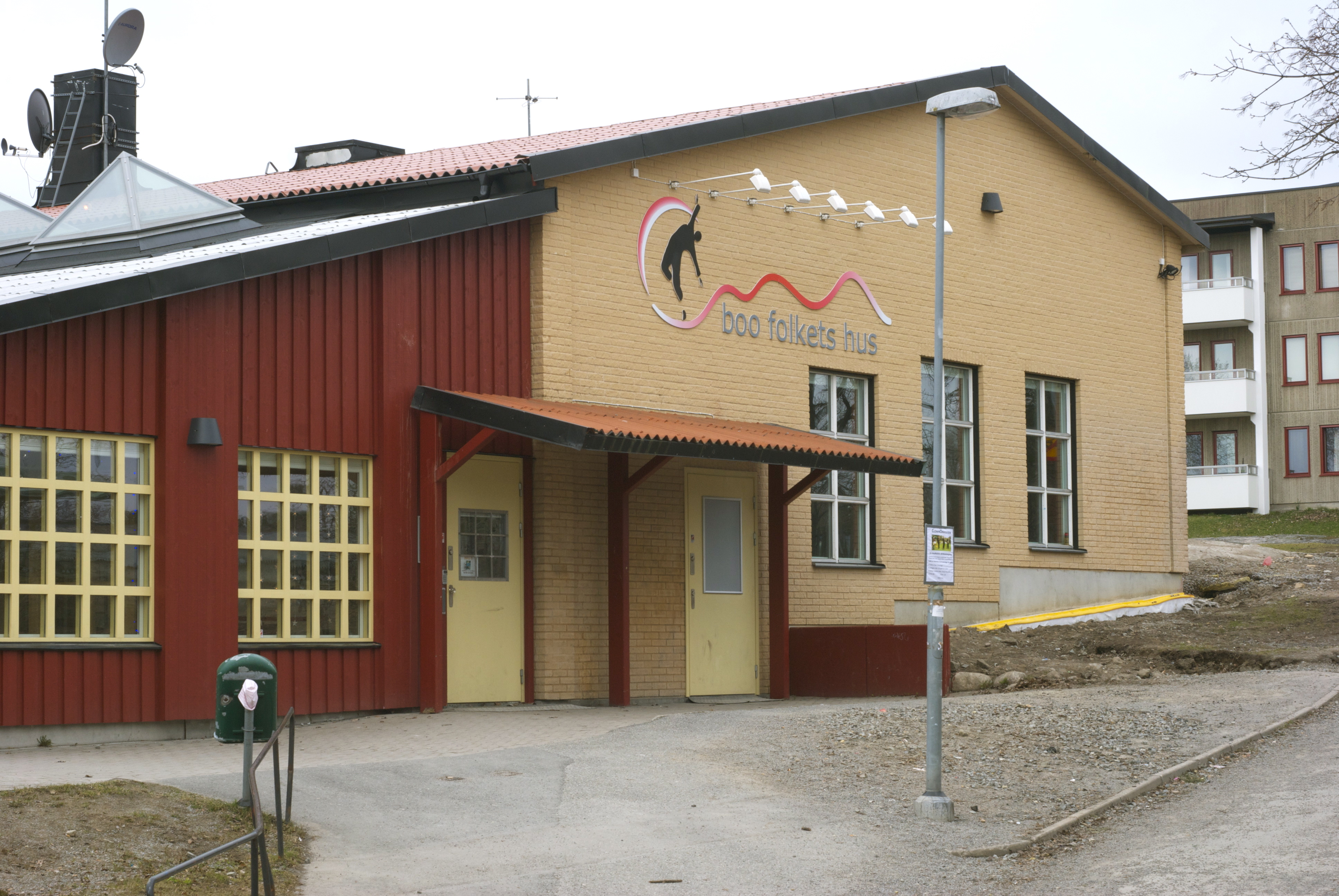 Boo folkets hus, Västra Orminge.